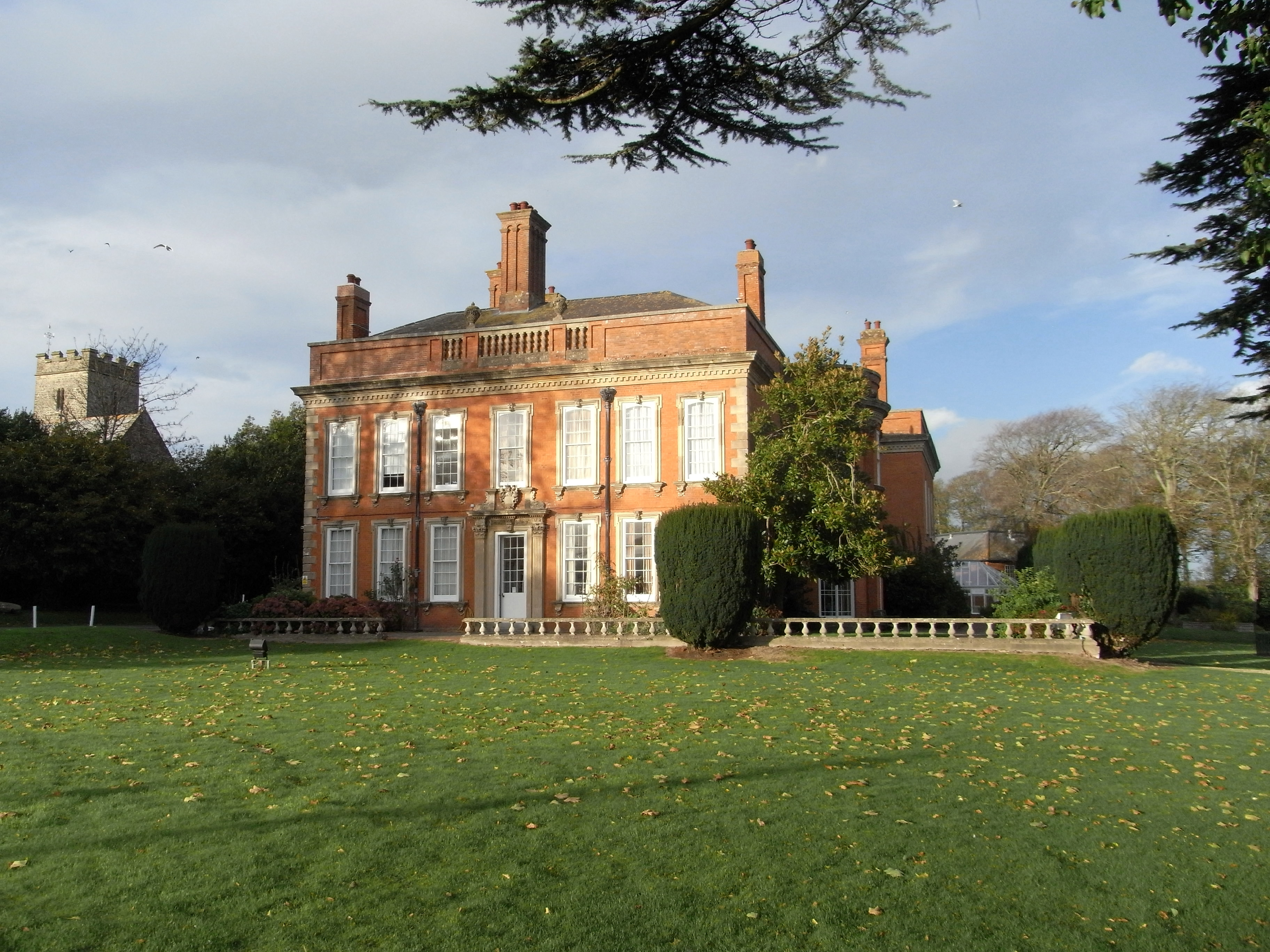 Fremington House, Fremington, North Devon, south front, with St Peter's Parish Church visible to west (left)